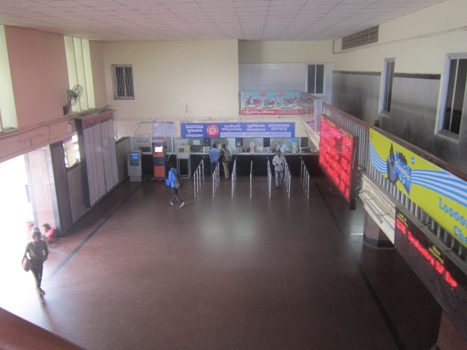 Ticket counter in Nelore Railway station